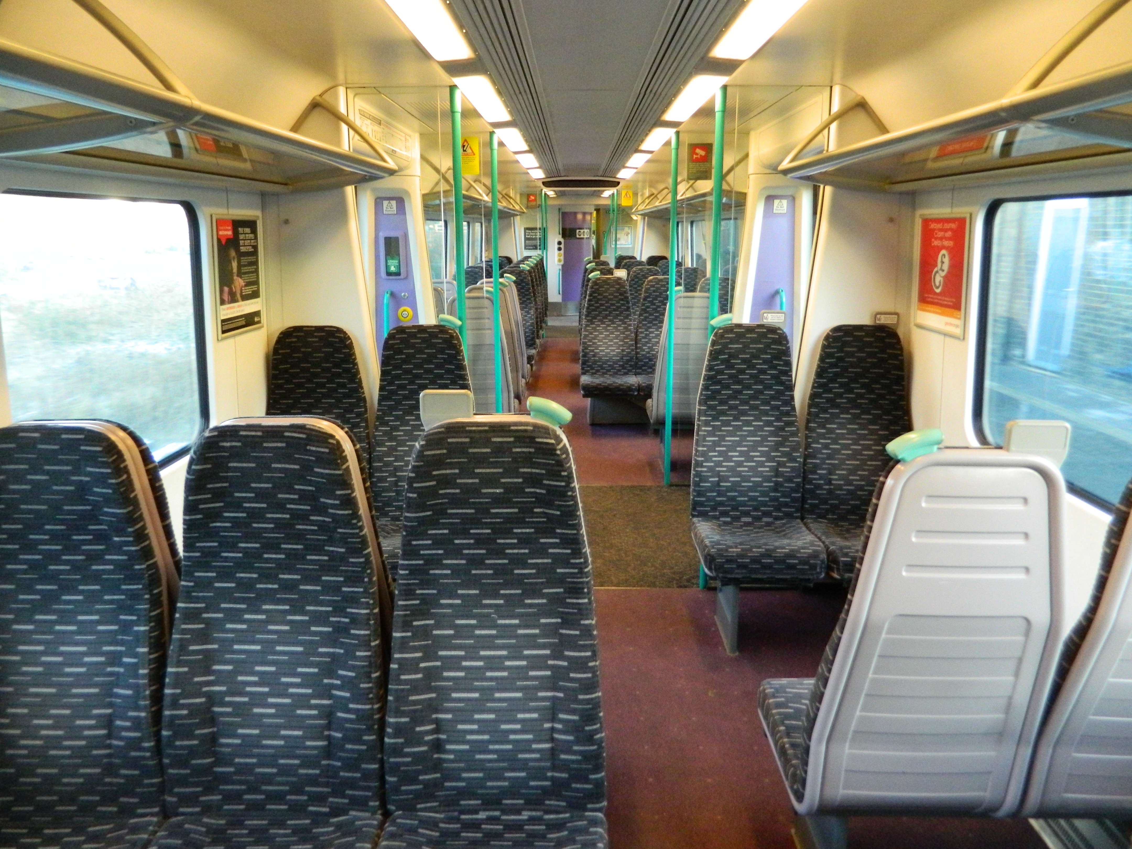 Refreshed standard class interior on a Greater Anglia Class 360.